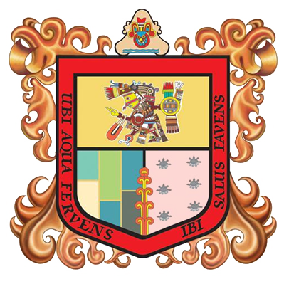 Escudo oficial de Ixtlán